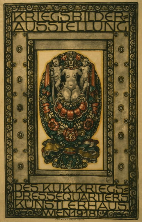 World War I poster by Austrian painter Wilhelm Dachauer (1881-1951). "Kriegsbilder - Ausstellung." Poster announces an exhibit of images of the war at the Künstlerhaus, Vienna, Austria.